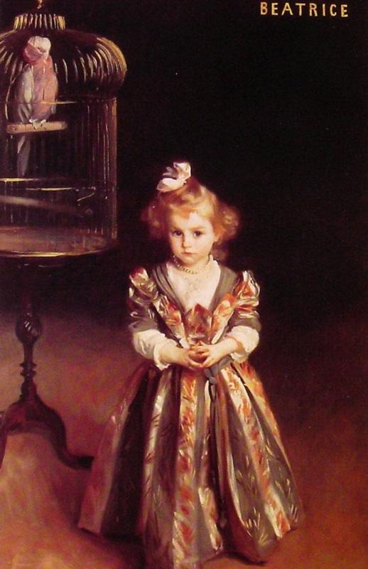 Beatrice Goelet John Singer Sargent -- American painter 1890 Private collection Oil on canvas 162.6 x 86.3 cm (64 x 34 in.) (Lower right:) John S. Sargent 1890 (Upper right:) BEATRICE signed Jpg: Excite Picture Search